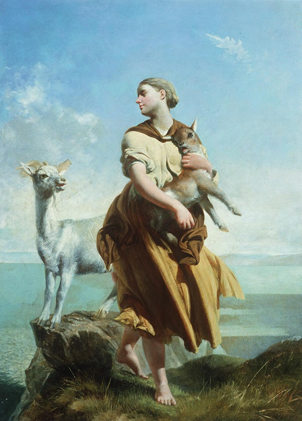 A painting from the Framed Works of Art collection at the National Library of wales.